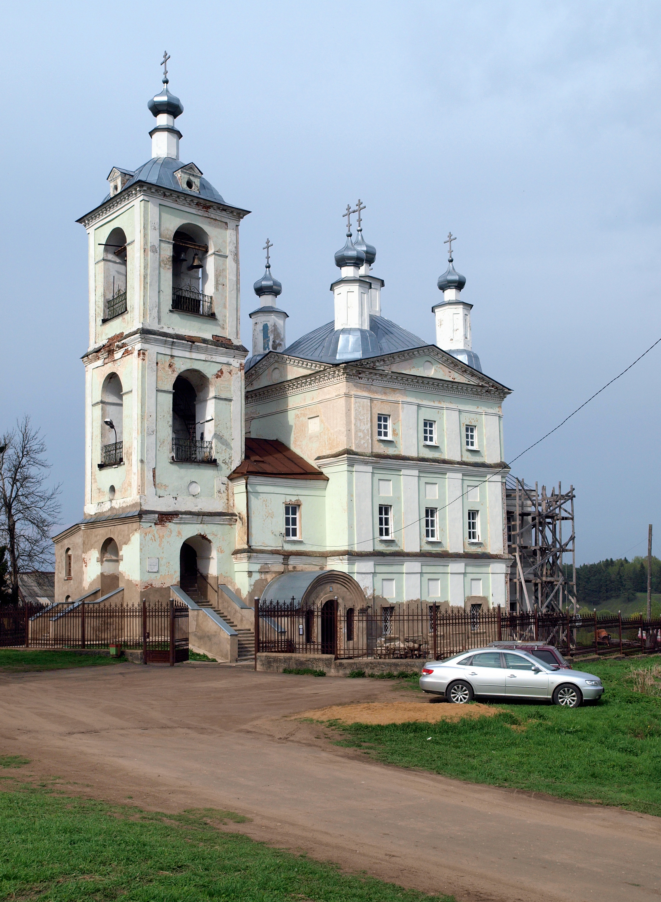 Church of Elijan in Vereya (Moscow Oblast, Russia) built in 1803.